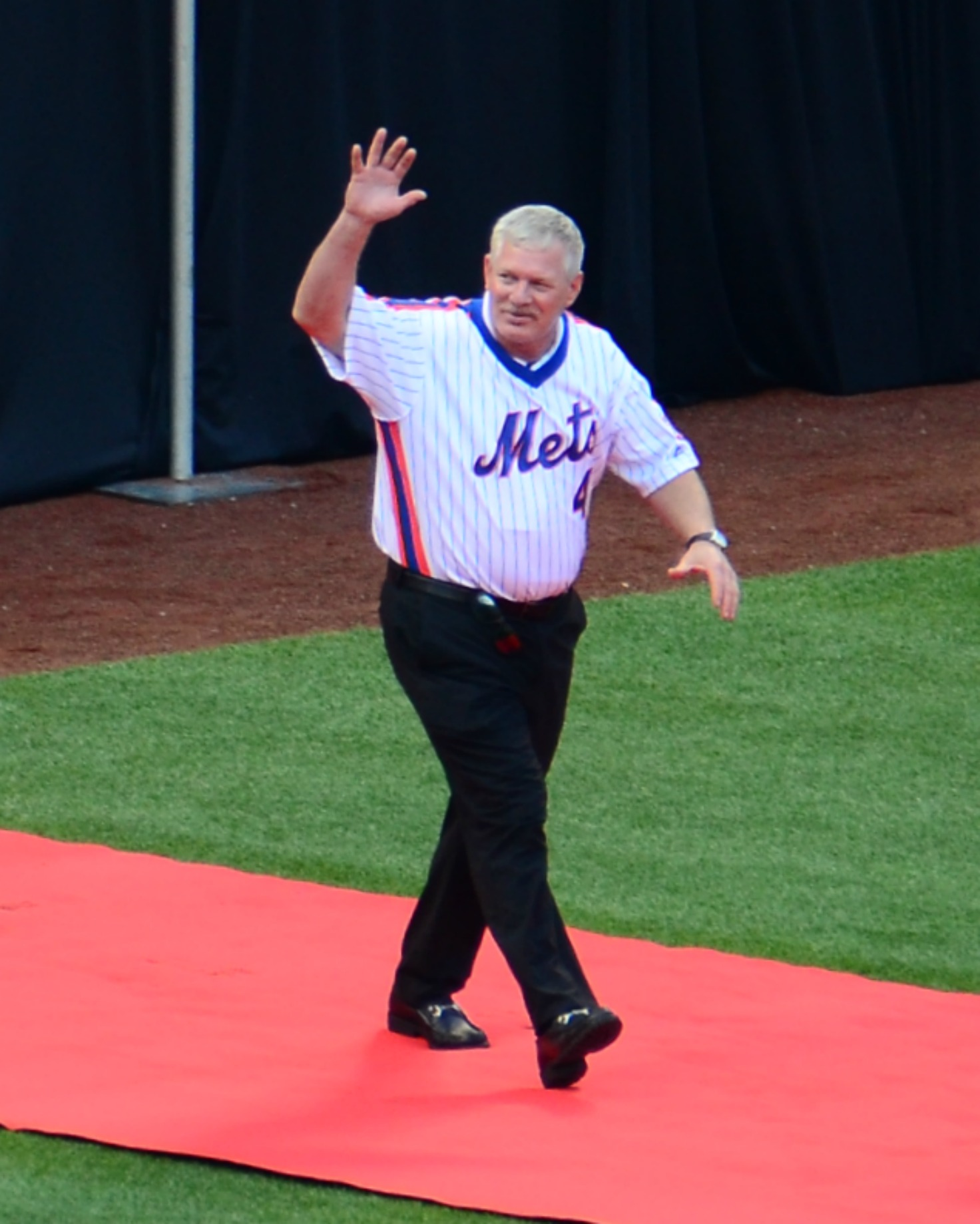 Lenny Dykstra waves to a crowd in 2016.